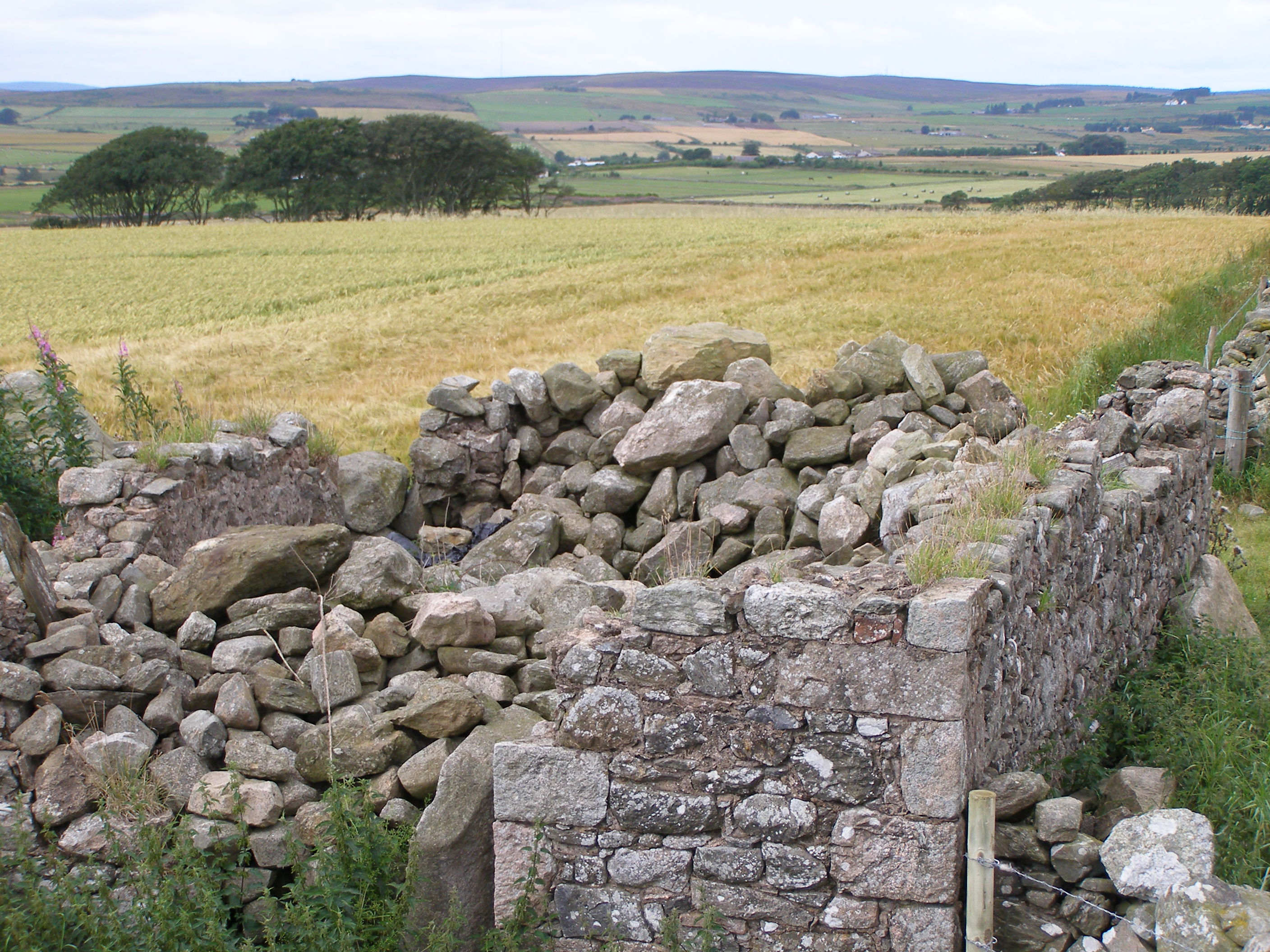 i took this photo in August 2006 and release all rights